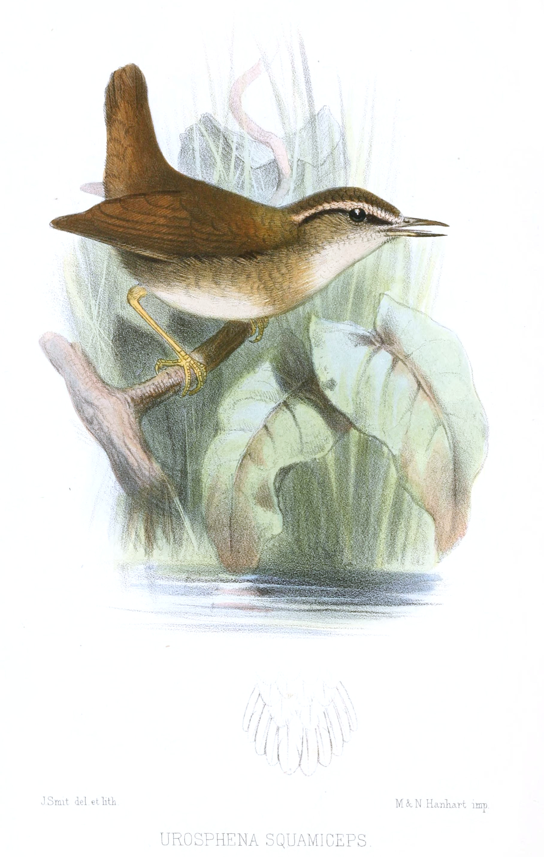 « Urosphena squamiceps » = Urosphena squameiceps (Asian Stubtail)